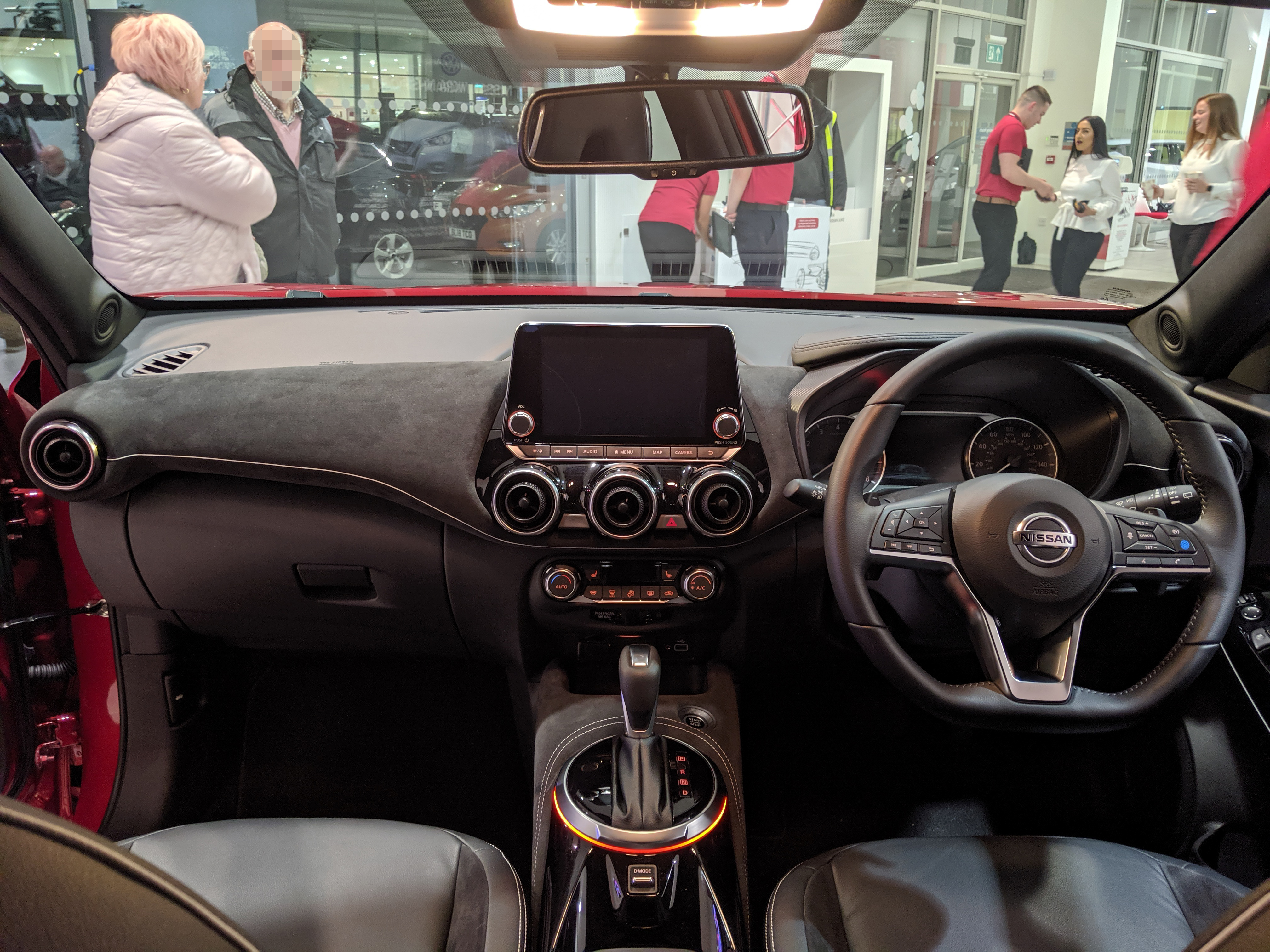 2019 Nissan Juke Tekna+ 1.0 Interior Taken at the VIP Preview at Arbury Nissan Leamington Spa